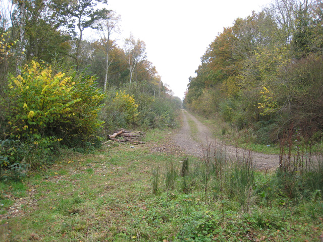 Legbourne Wood Nature Reserve Looking along the old railway line.